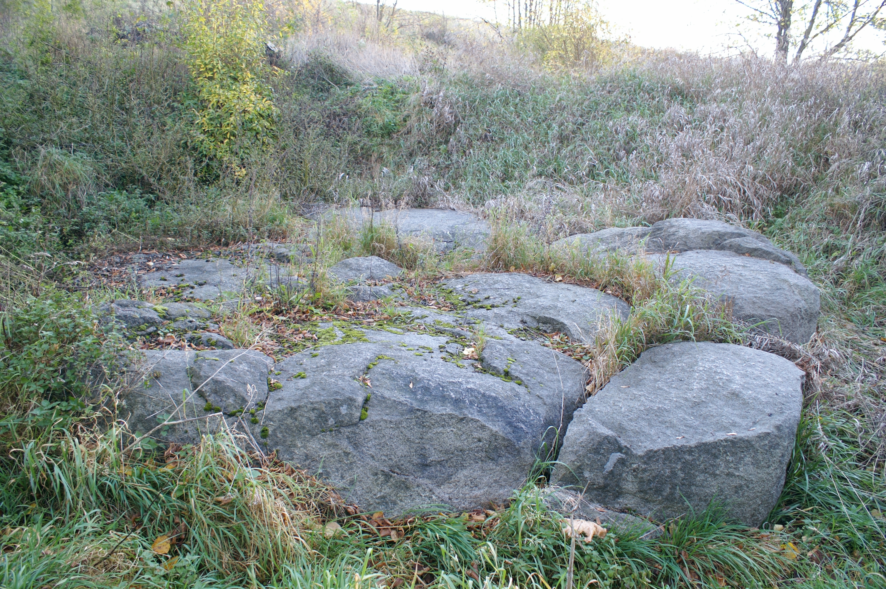 Glacial erratic in Französisch Buchholz, Berlin, Germany